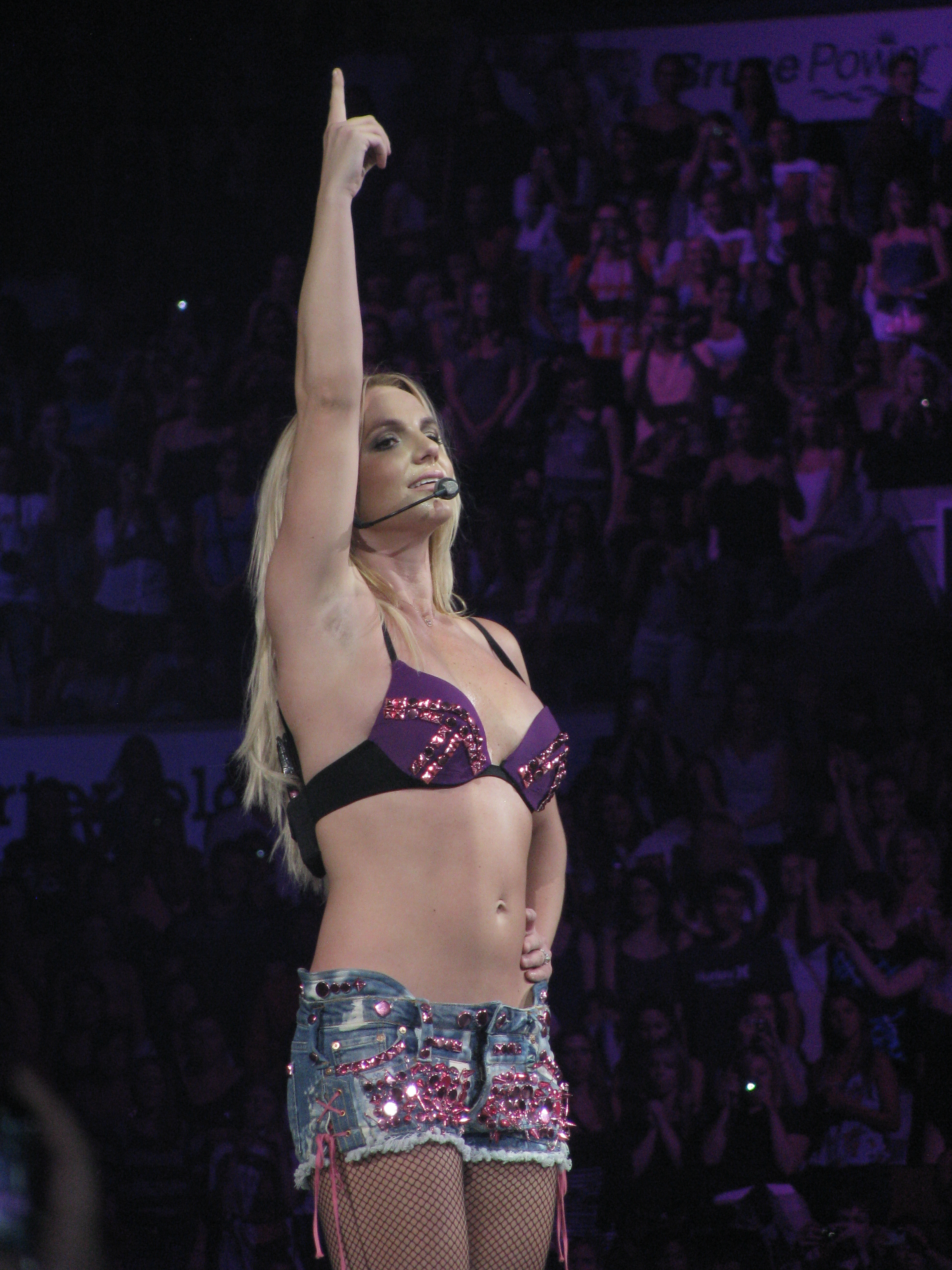 Spears performing "Womanizer" at the Femme Fatale Tour.